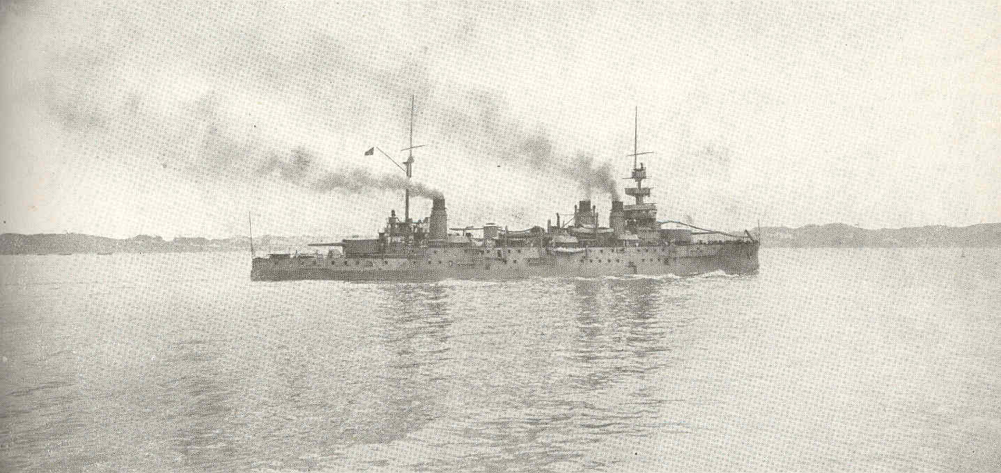 Subject: Ironclads, Armored vessels, Republique (Ironclad) Tag: Vessels